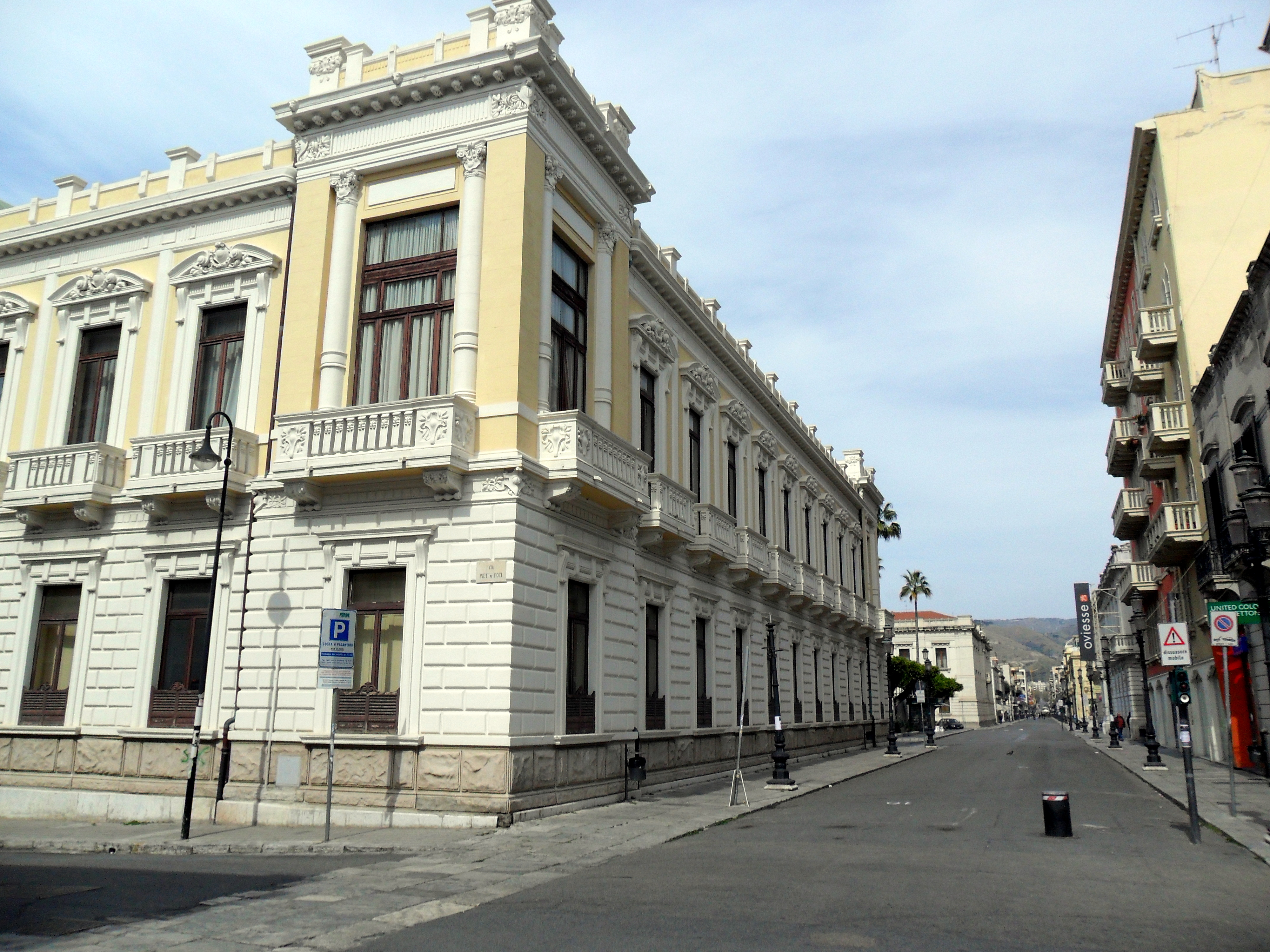 Foti Palace